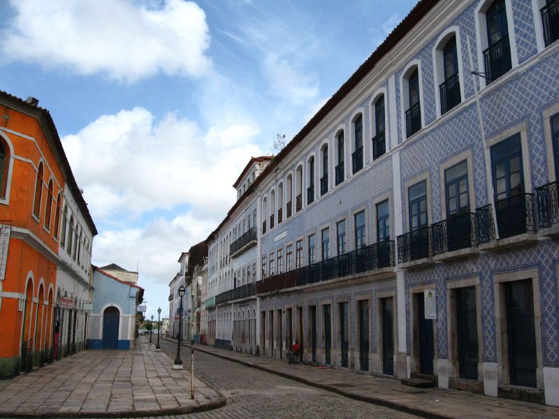 Street in São Luís, Brazil